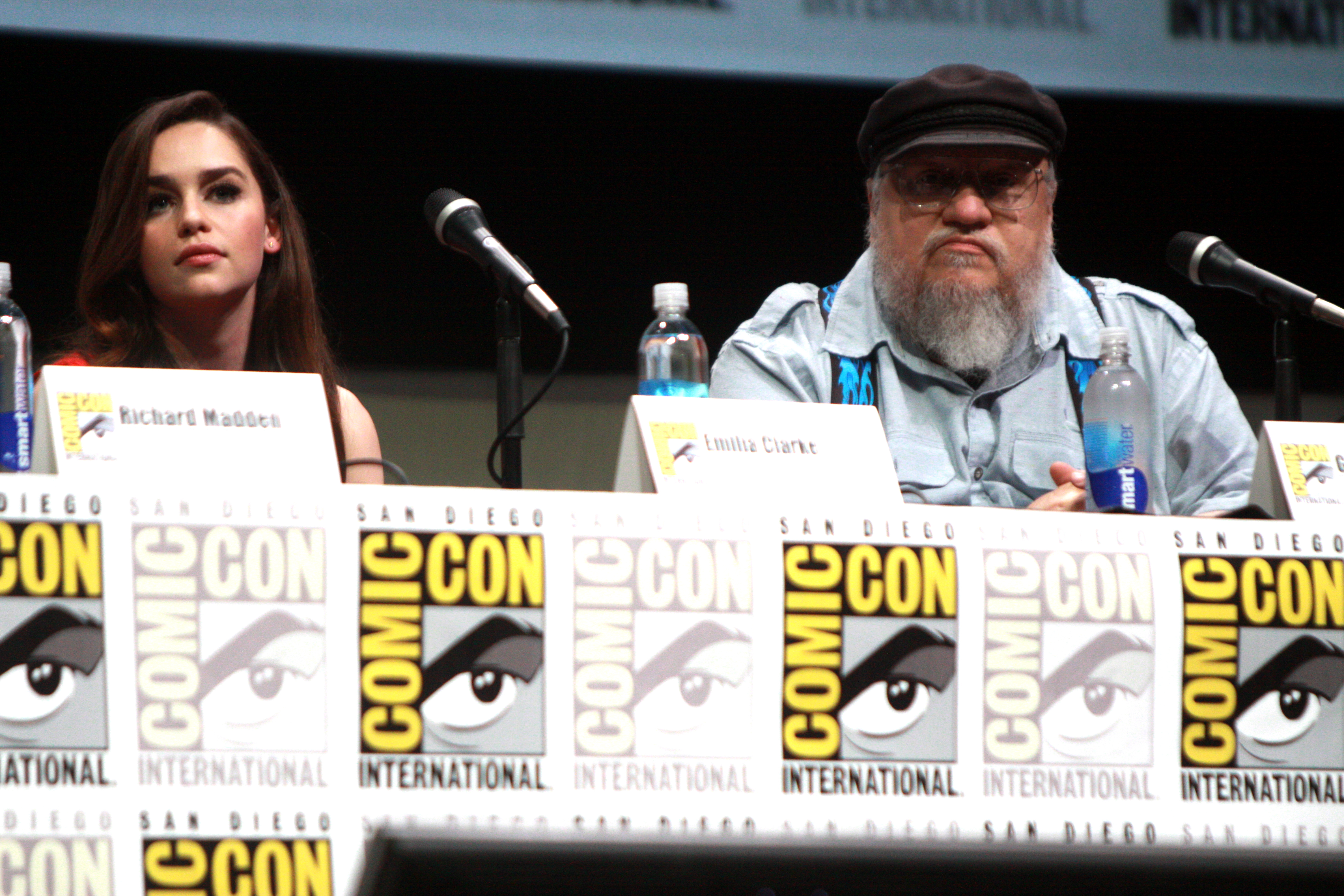 Emilia Clarke and George R. R. Martin speaking at the 2013 San Diego Comic Con International, for "Game of Thrones", at the San Diego Convention Center in San Diego, California.